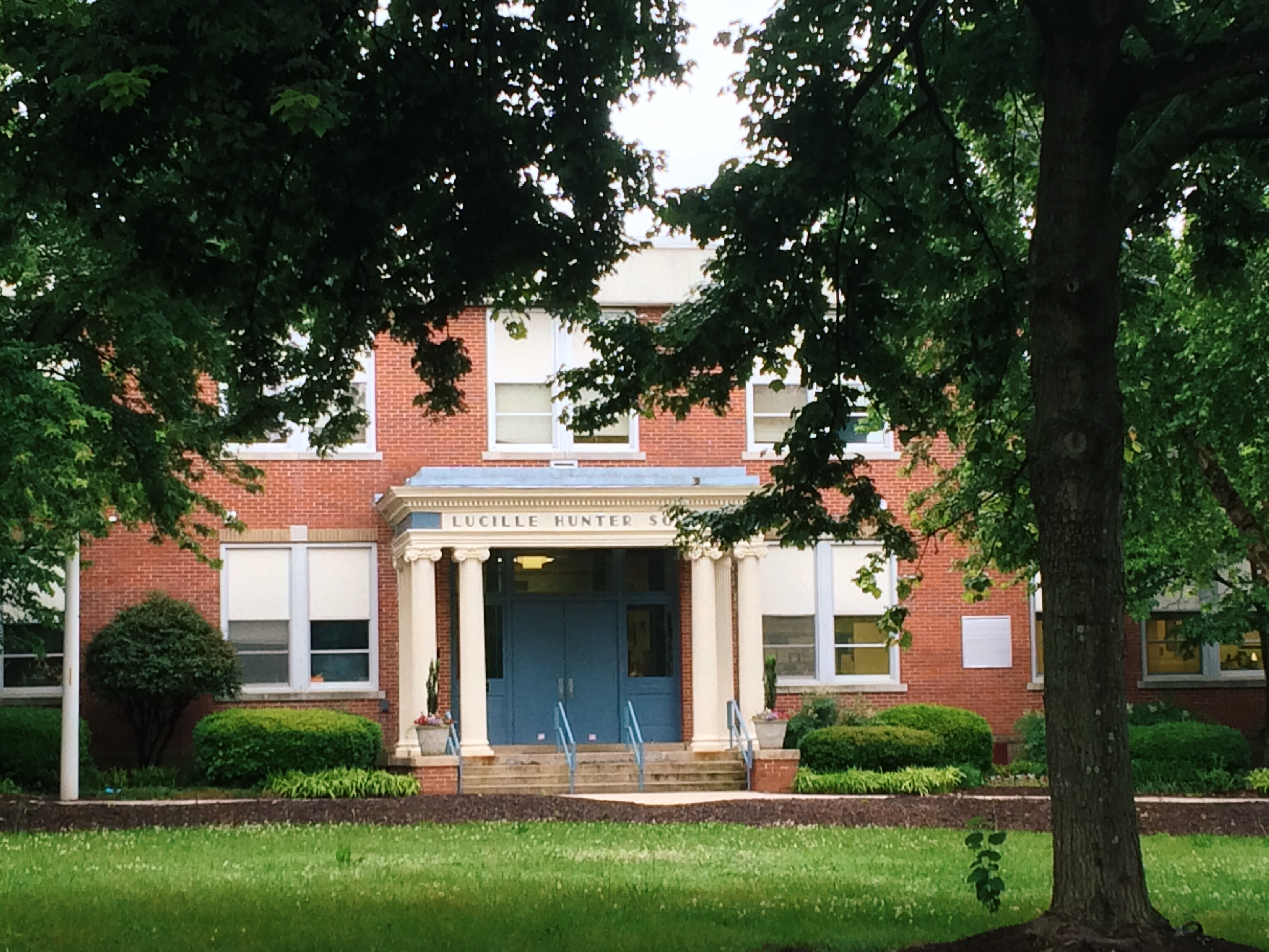 Lucille Hunter Elementary School in downtown Raleigh, North Carolina